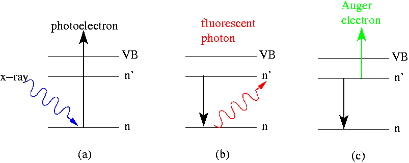 The fundamental processes which contribute to NEXAFS spectra: (a) photoabsorption of an x-ray into a core level followed by photoelectron emission, followed by either (b) filling of the core hole by an electron in another level, accompanied by fluorescence; or (c) filling of the core hole by an electron in another level followed by emission of an Auger electron. Created by Alison Chaiken using xfig.